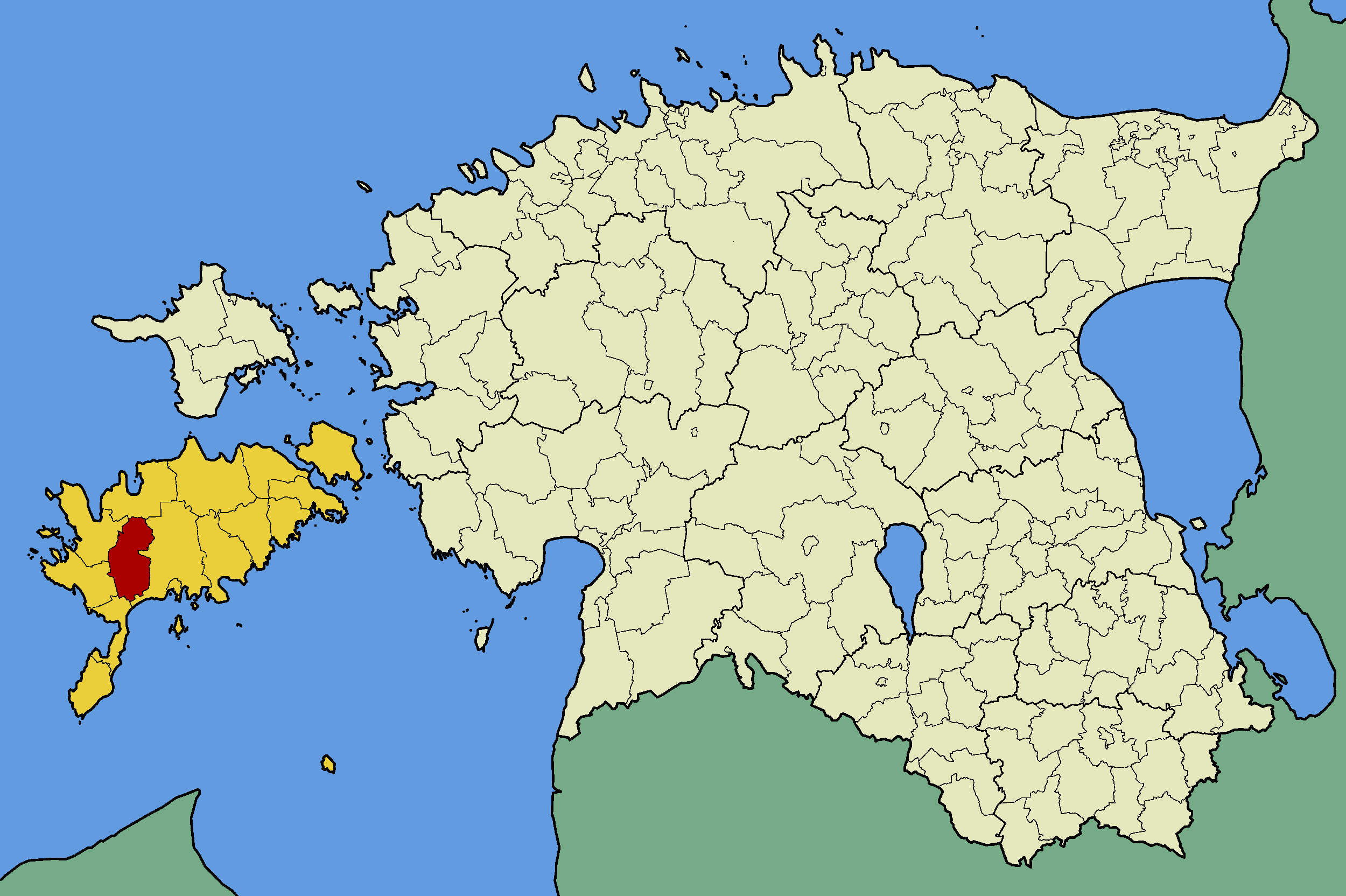 Map of Estonia with borders of municipalities (parishes). Saare county and Kärla municipality emphasized.